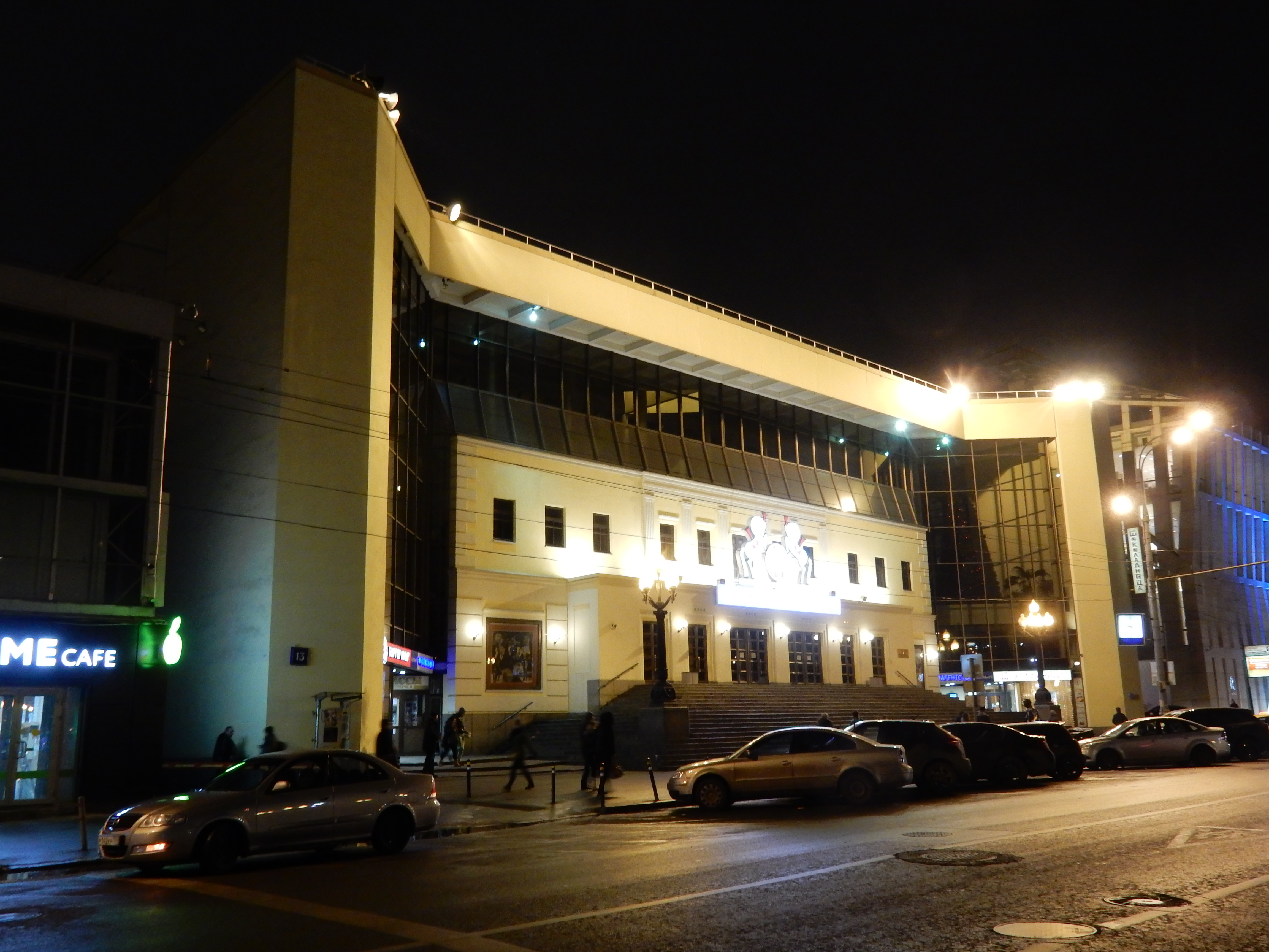 Moscow Circus on Tsvetnoy Boulevard, night view. Dec 2014.